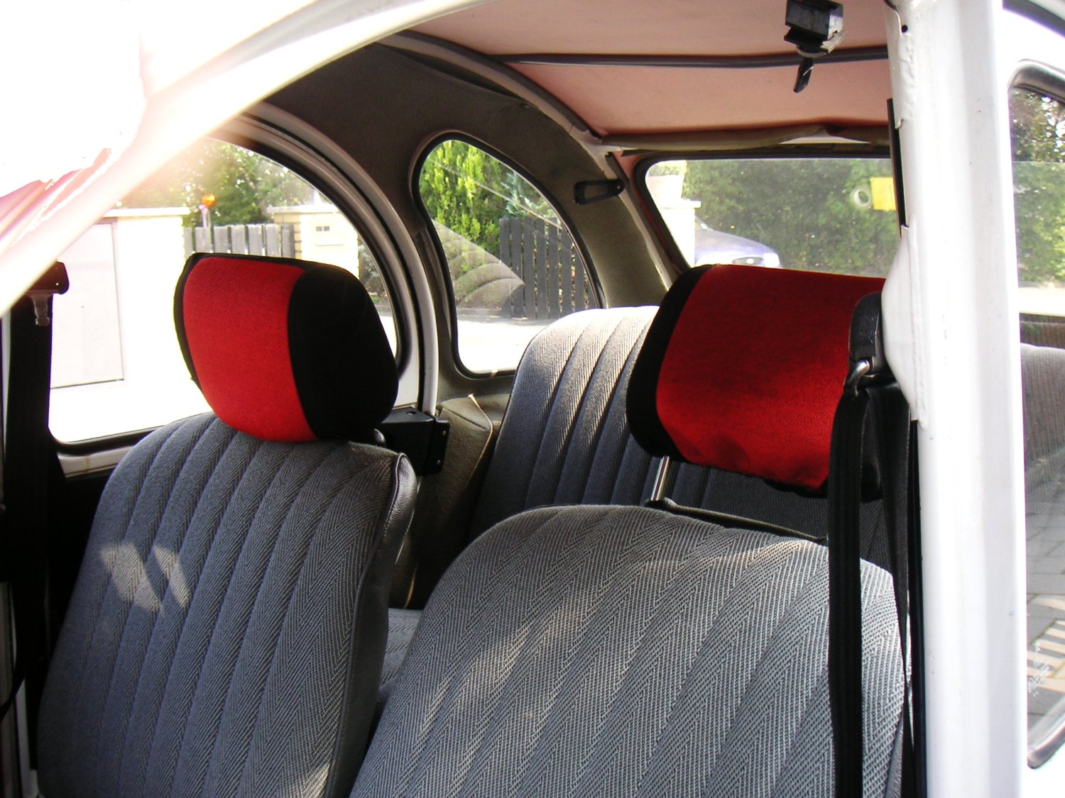 Citroën 2CV, interior view.